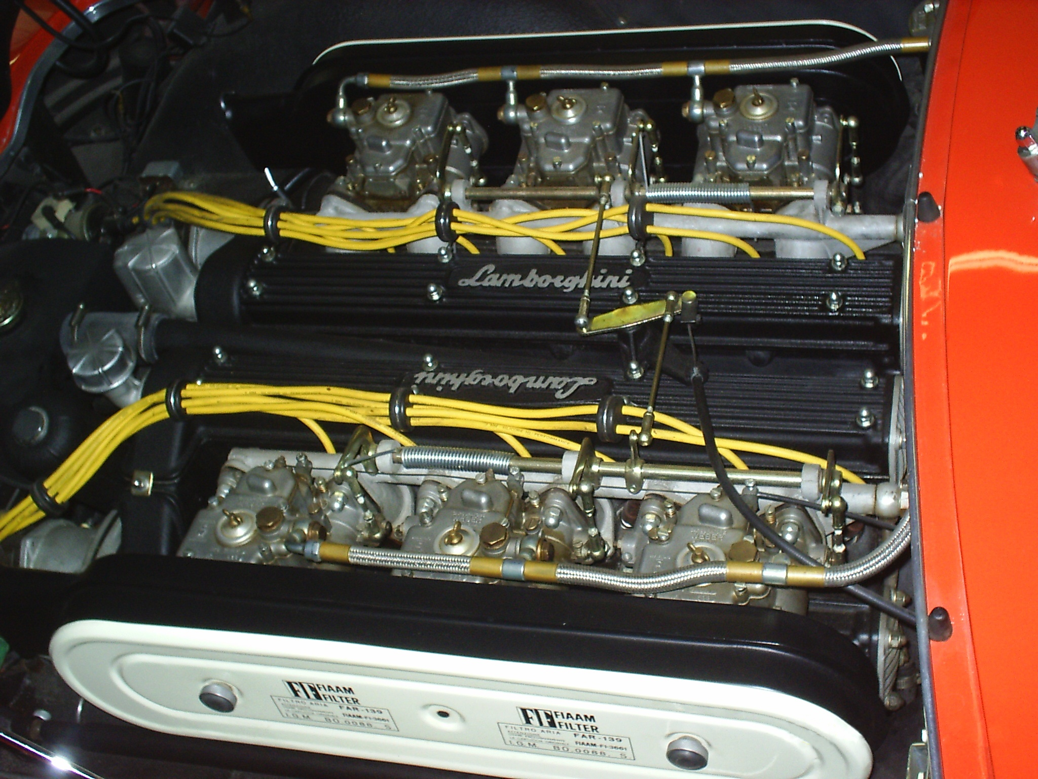 Lamborghini 350GT V12 engine specs via Lamborghini 350GT engine: Aluminium alloy, 60 degree V12 position: Front Longitudinal aspiration: Natural valvetrain: DOHC, 2 valves per cylinder fuel feed: 6 twin-tarrel Webber 40 DCOE 2 carburetors displacement: 3,464 cc / 211.4 cu in bore: 77 mm / 3.03 in stroke: 62 mm / 2.44 in compression ratio: 9.5:1 power: 201.3 kW / 270 bhp @ 6,500 rpm specific output: 77.94 bhp per litre bhp/weight: 257.14 bhp per tonne torque 344.4 nm / 254.0 ft·lbf @ 5,700 rpm